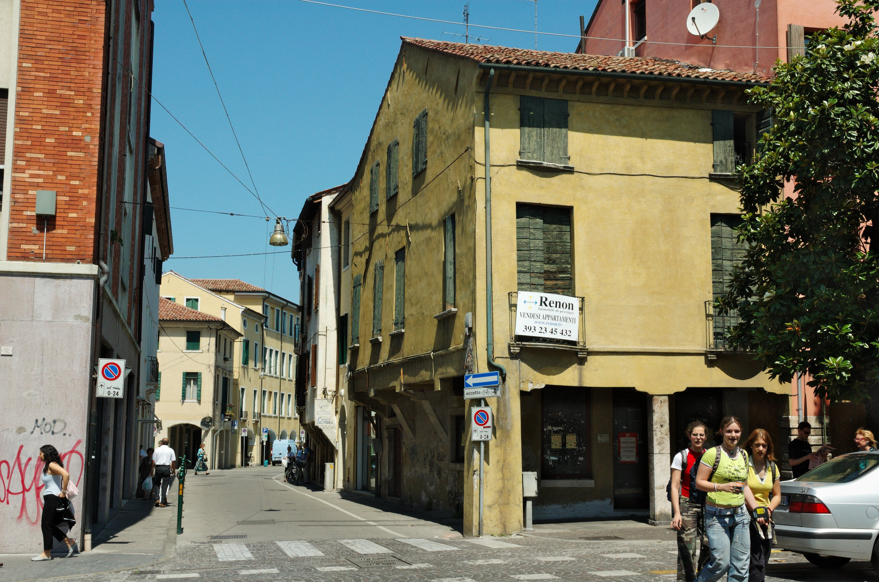 View along Via Jacopo Riccati, Treviso, at the intersection with Viale Cesare Battisti, with an apartment building on the corner.